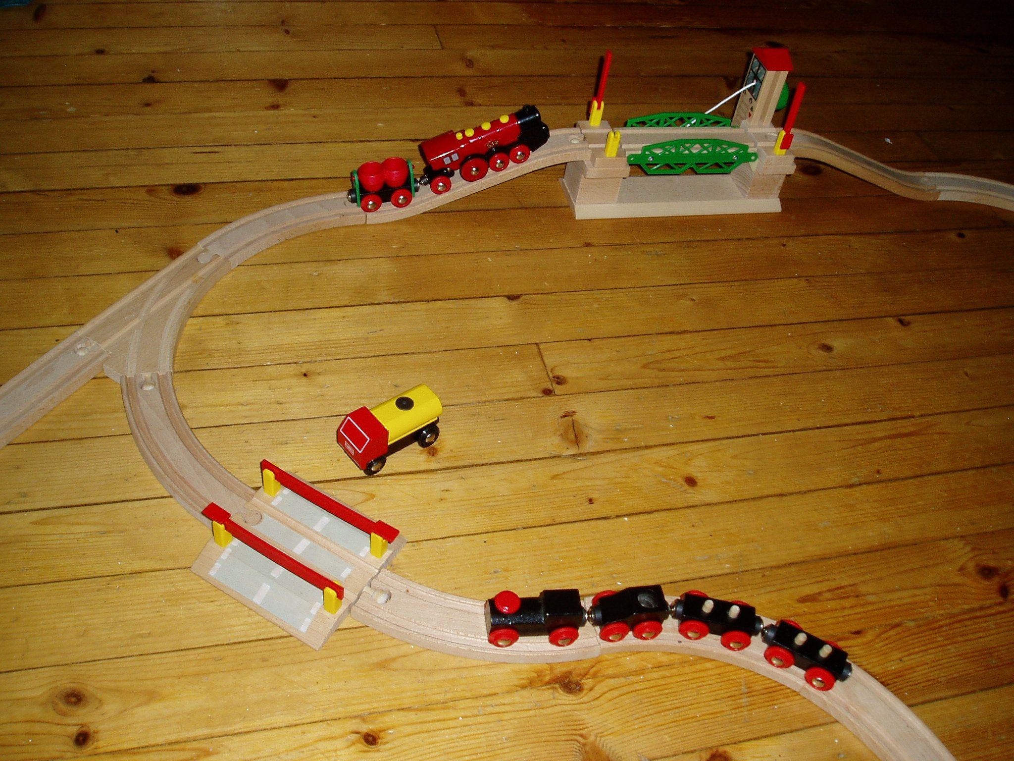 BRIO wooden train. Foto: Ohto Kokko